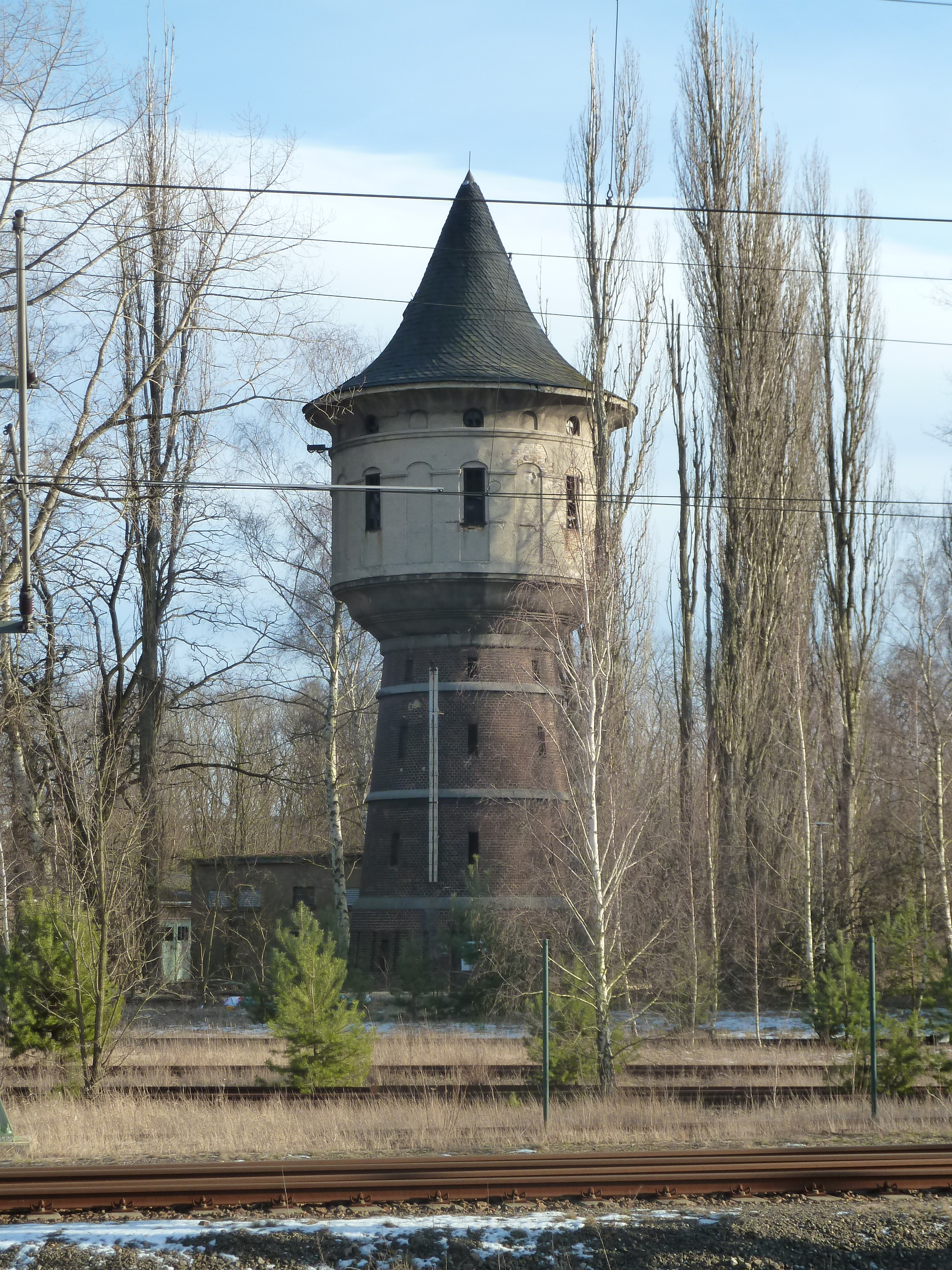 Water tower for railway in Jüterbog, cultural heritage